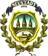 Coat of Arms of First upload in de-wp: J C D (01:19, 17. Jan. 2006)